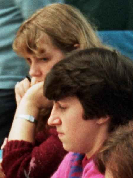 Teresa Needham and Sheila Jackson, Chess Olympiad 1982 in Luzern, Photographer Gerhard Hund.